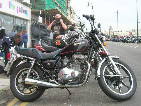 Kawasaki Z400LTD displaying the 'LTD' design cues of American motorcyle designer Wayne Moulton.